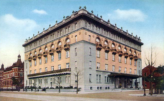 Tokyo Kaikan at its completion.